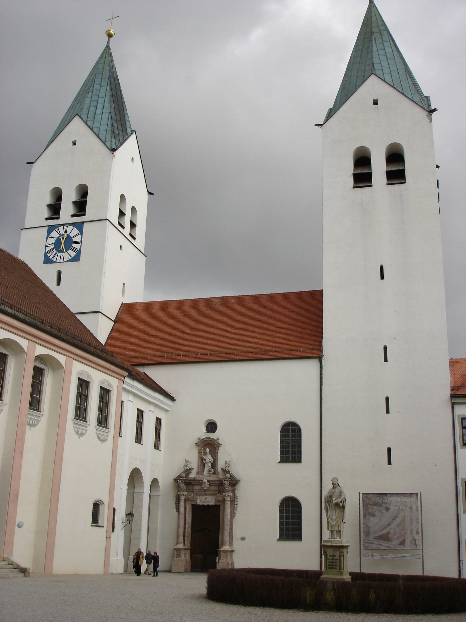 Cathedral of Freising, outside view